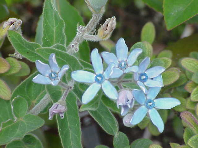 Species: Oxypetalum coeruleum Family: Asclepiadaceae Image No. 1